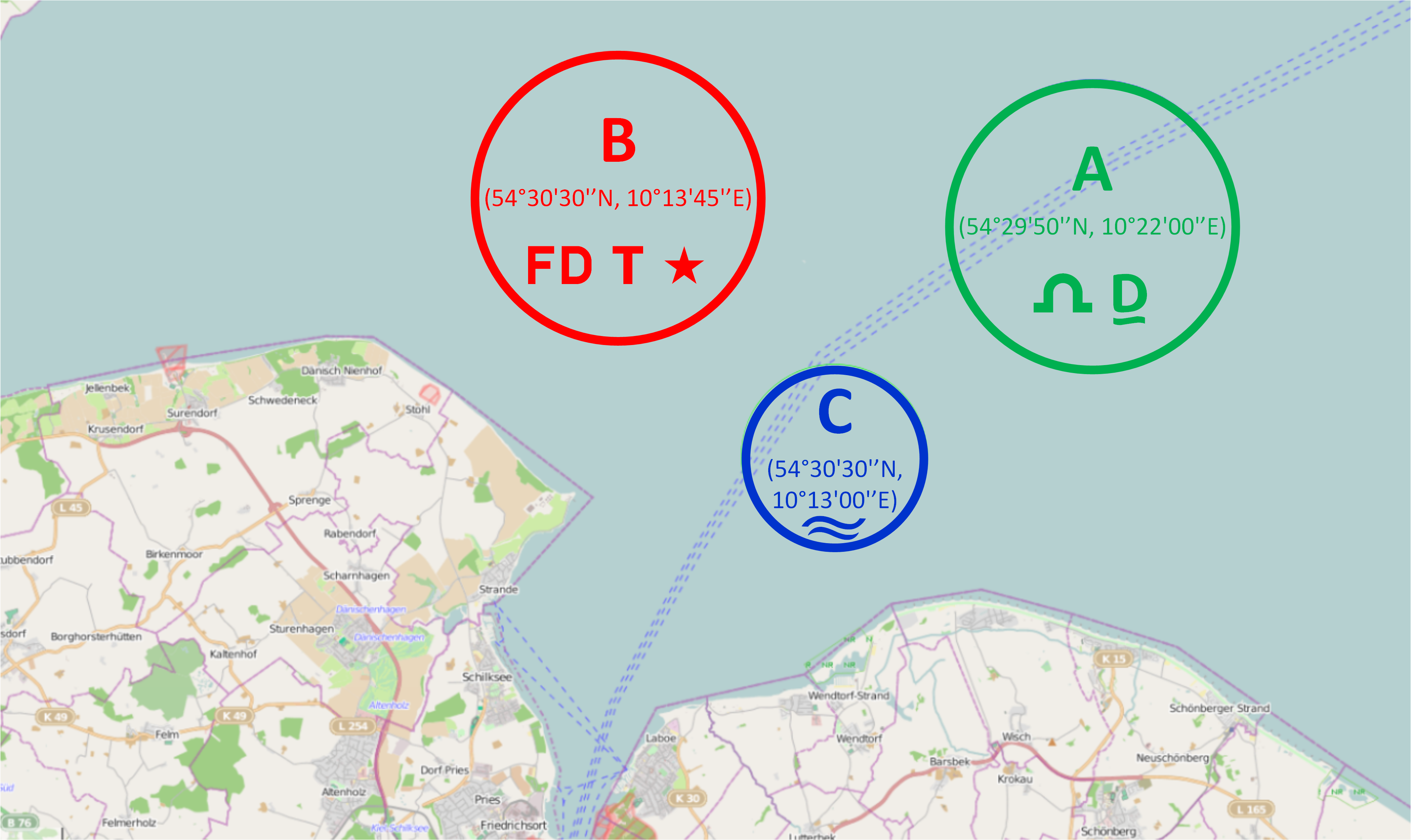 Kiel/Schilksee Olympic Course Area's 1972 This map may be incomplete, and may contain errors. Don't rely solely on it for navigation.